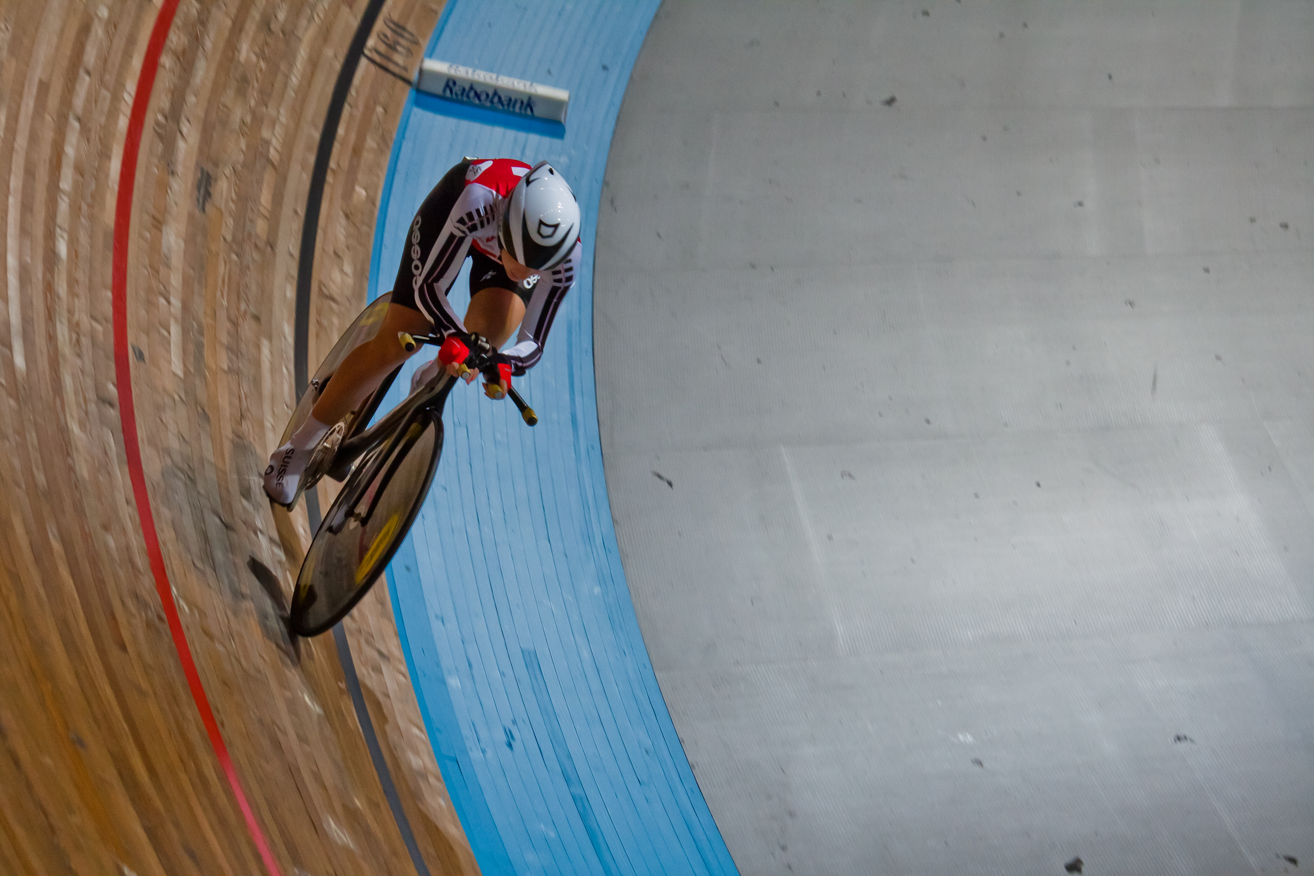 Women's omnium - 500m time trial. Andrea Wolfer of Switzerland. At the 2011 European Elite Track Cycling Championships in Apeldoorn, Netherlands.